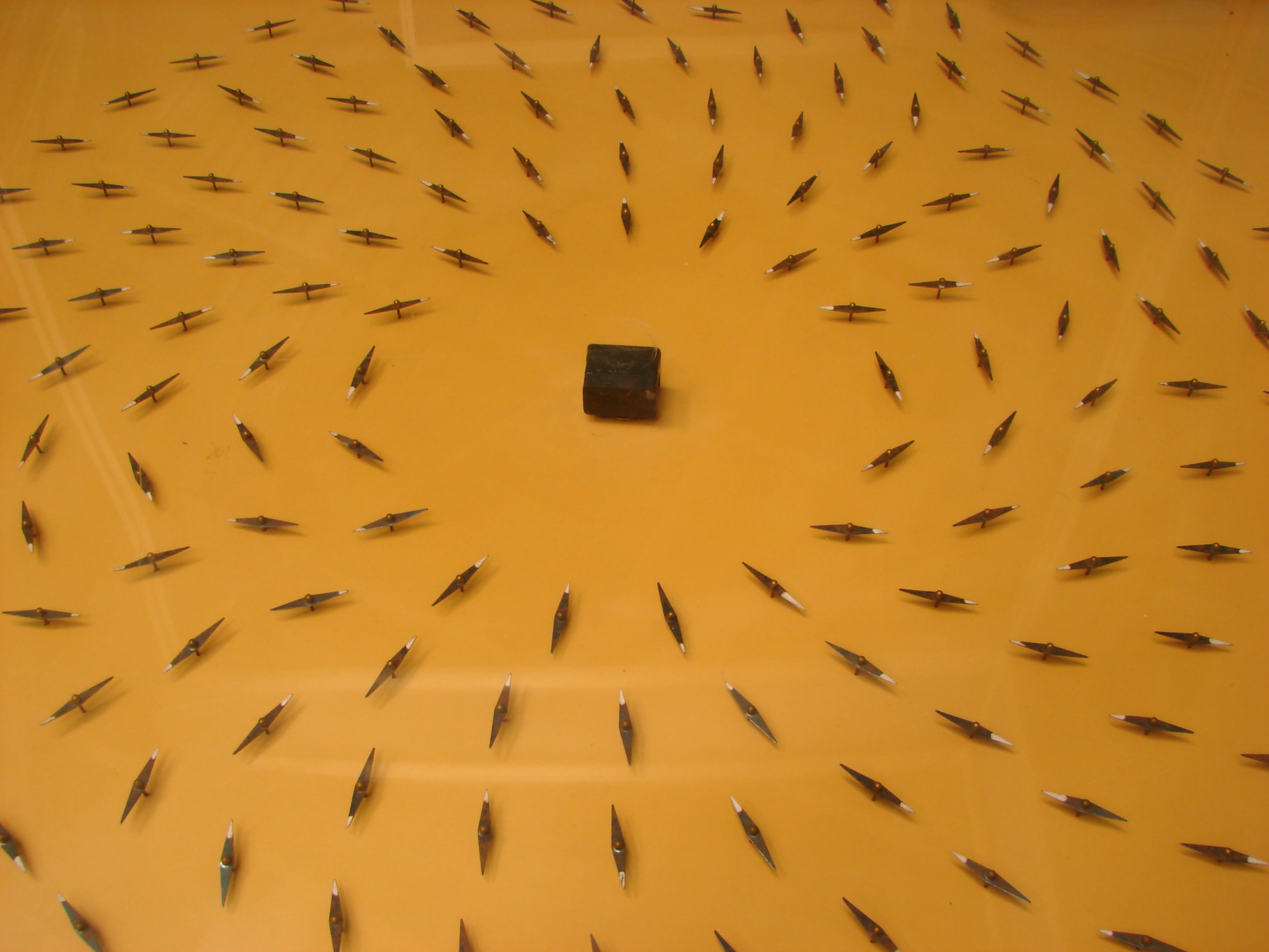 Magnetic Field